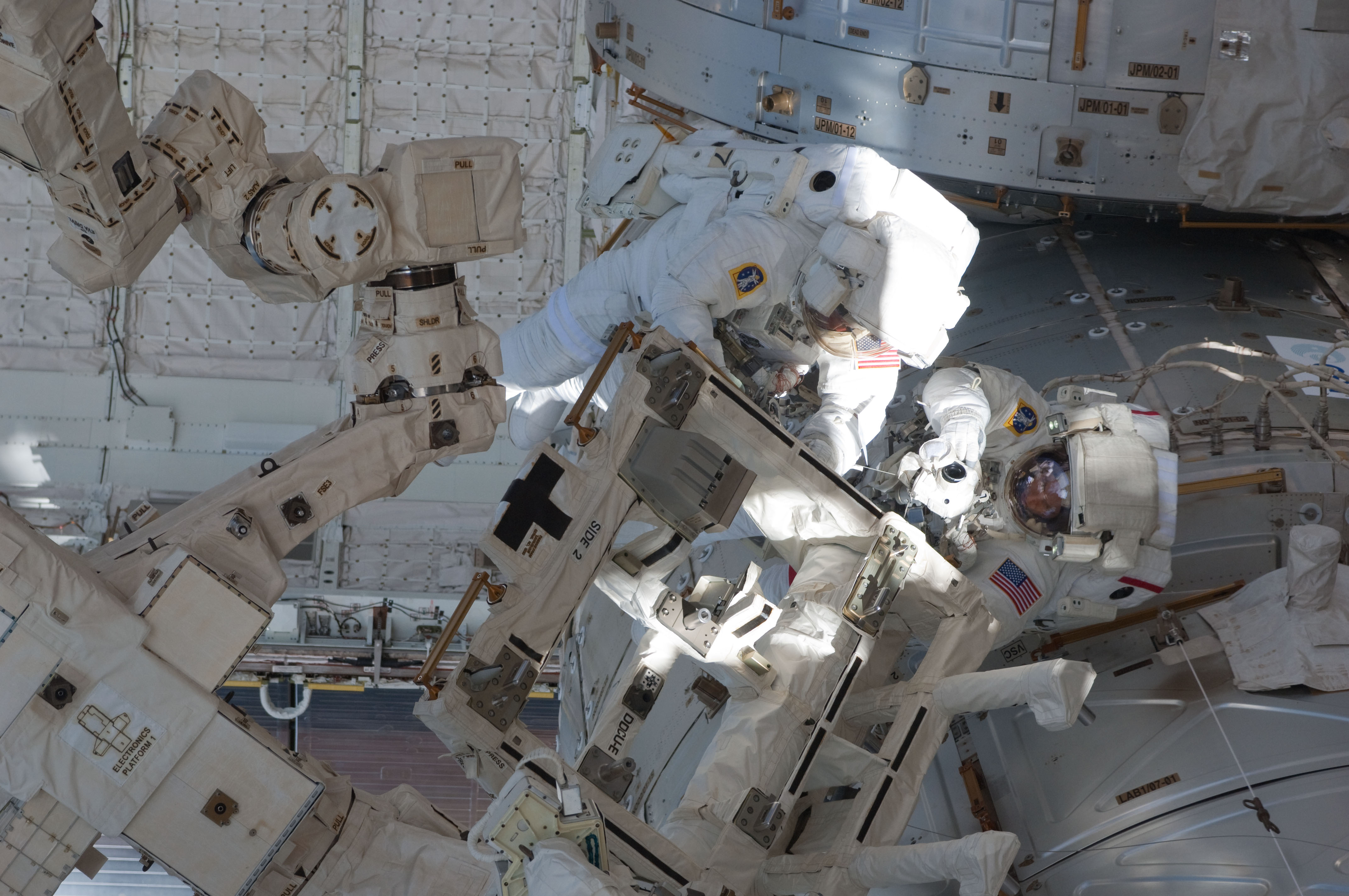 With various components of the International Space Station serving as a backdrop in the view, NASA astronauts Andrew Feustel (right) and Michael Fincke are pictured during the STS-134 mission's third space walk, on May 25, 2011. The two mission specialists coordinated their shared activity with NASA astronaut Greg Chamitoff (out of frame), who stayed in communication with the pair and with Mission Control Center in Houston from the shirt sleeve environment inside the ISS.